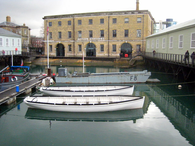 The mast pond in Portsmouth Historic Dockyard The Mast Pond was excavated in 1665 by soldiers and Dutch prisoners. It was originally used to store masts awaiting repair or collection. The Mast Pond is now home to a flotilla of restored crafts maintained by the Portsmouth Dockyard Historical Trust.